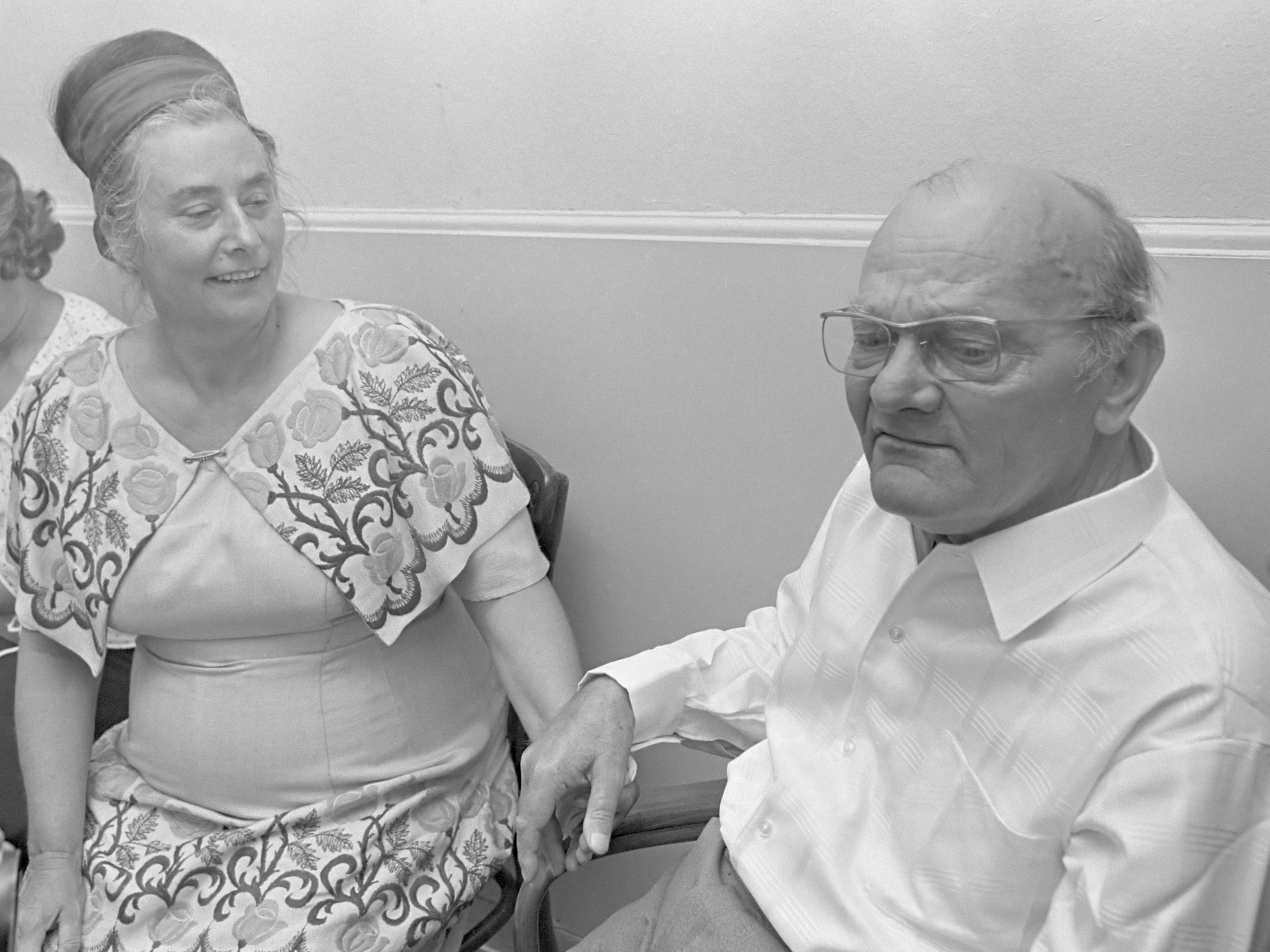 Lou de Palingboer speaks for the last time in Frascati. Here with his wife Mientje during the break.